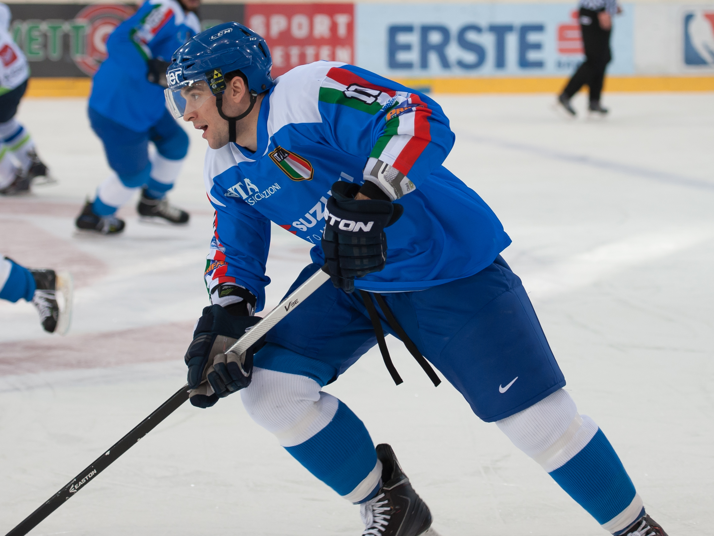 Euro Ice Hockey Challenge Vienna, February 7, 2015, Italy vs. Slovenia